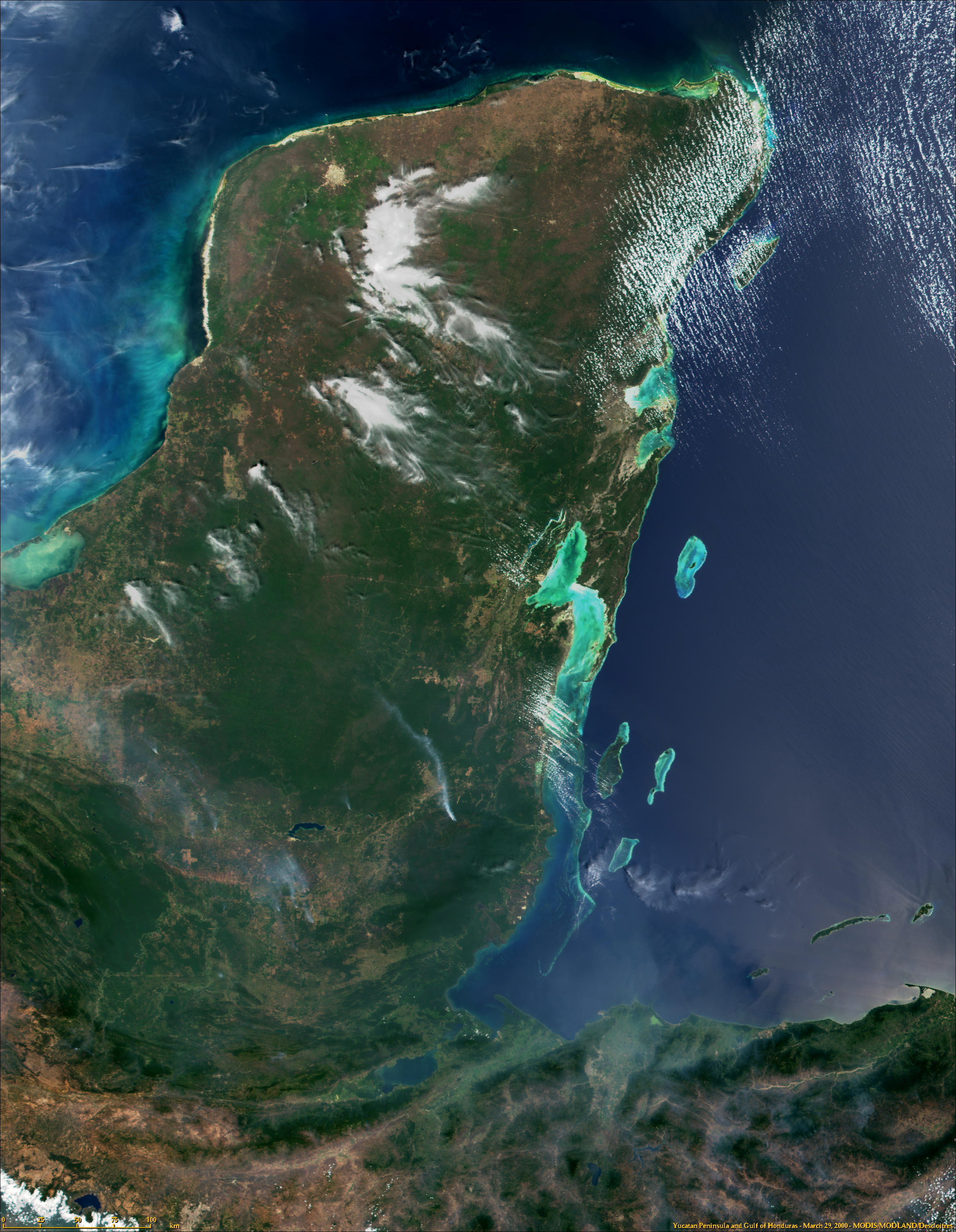 Yucatan Peninsula and Gulf of Honduras from MODIS - NASA Visible Earth.